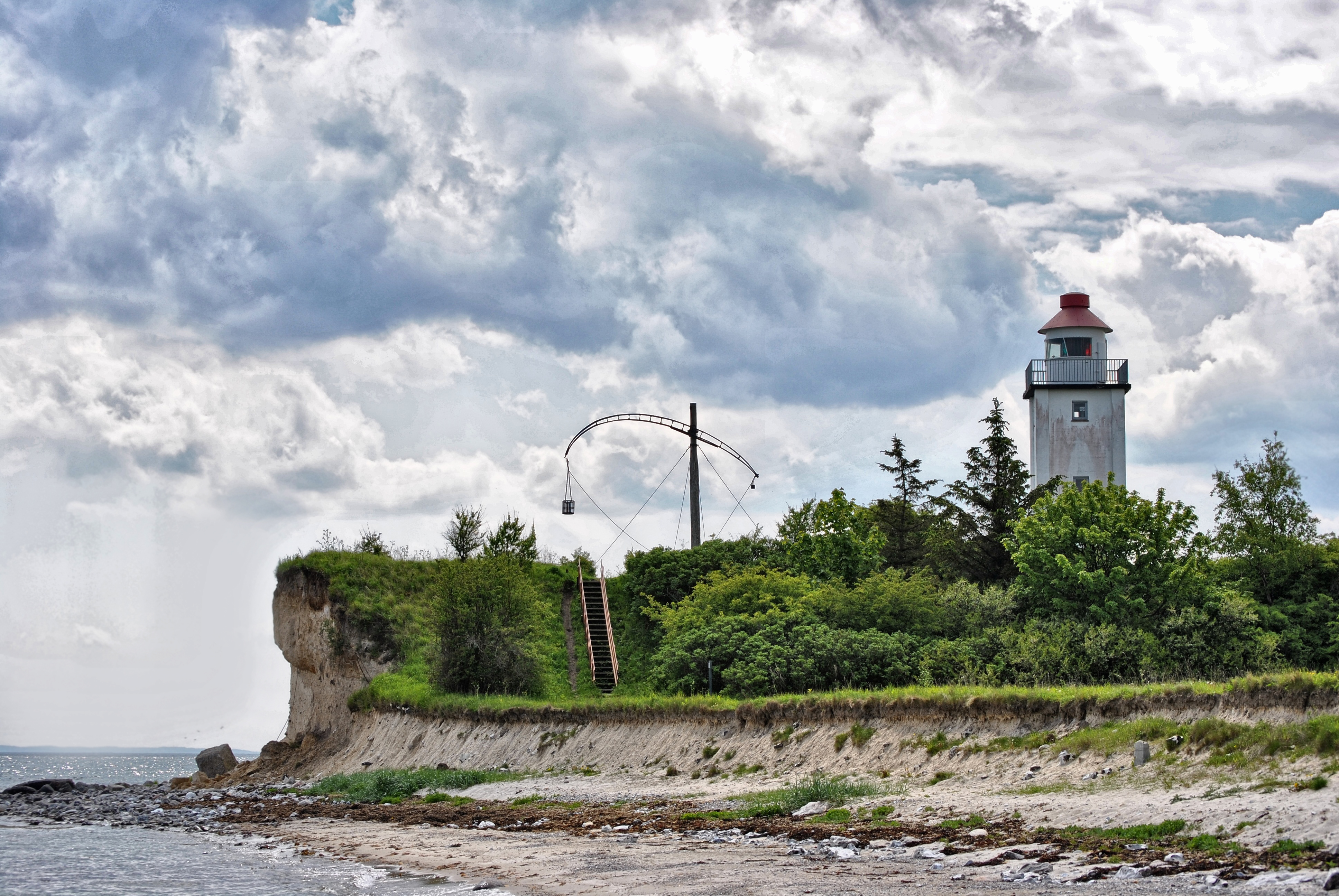 Knudshoved Lighthouse on the Island of Funen, Denmark